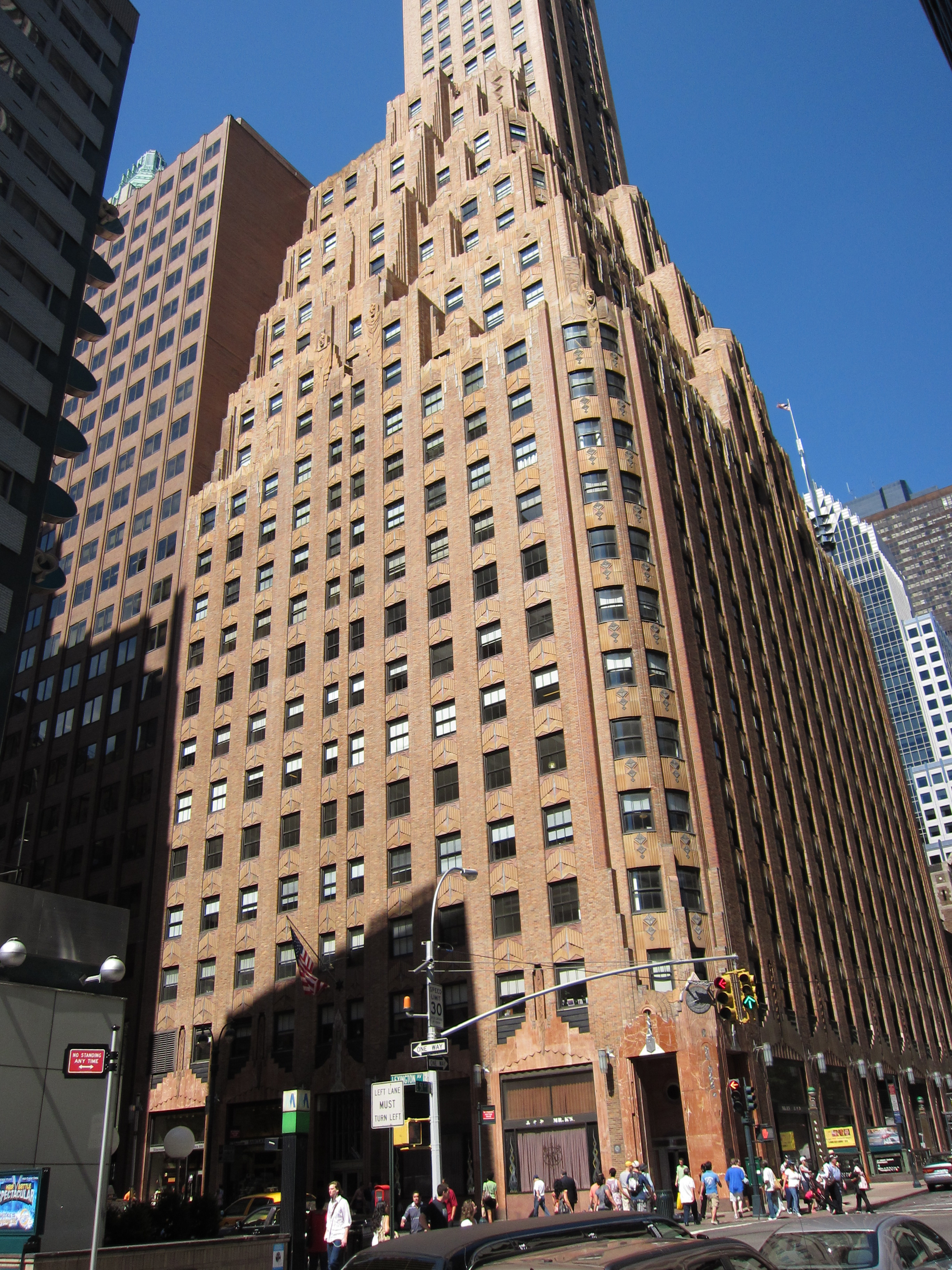 570 Lexington Avenue building also known as the General Electric Building, 570 Lexington Avenue, Manhattan, New York. Photograph taken from the corner of Lexington Avenue and East 51st Street.